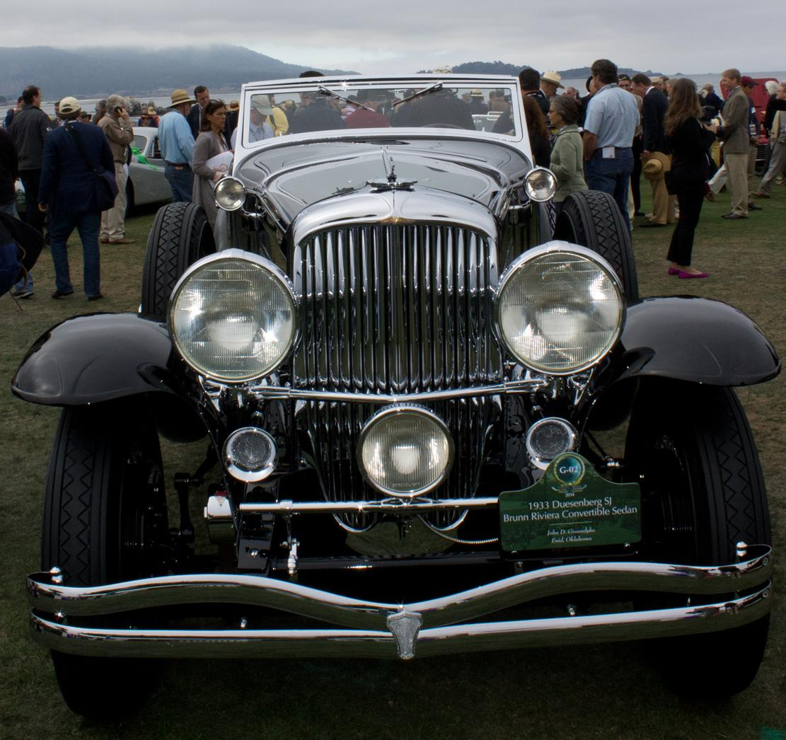 1933 Duesenberg SJ Brunn Riviera Convertible Sedan Pebble Beach Concours d'Elegance 2014